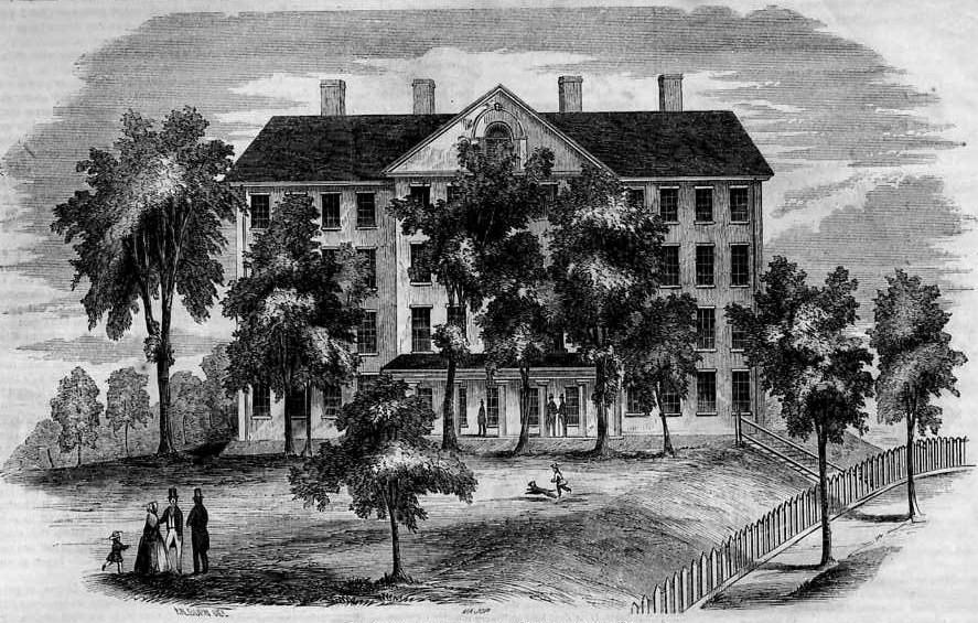 Theological Seminary, at Bangor, Maine, an engraving published December 1853 in Gleason's Pictorial Drawing-Room Companion, Boston, Massachusetts.